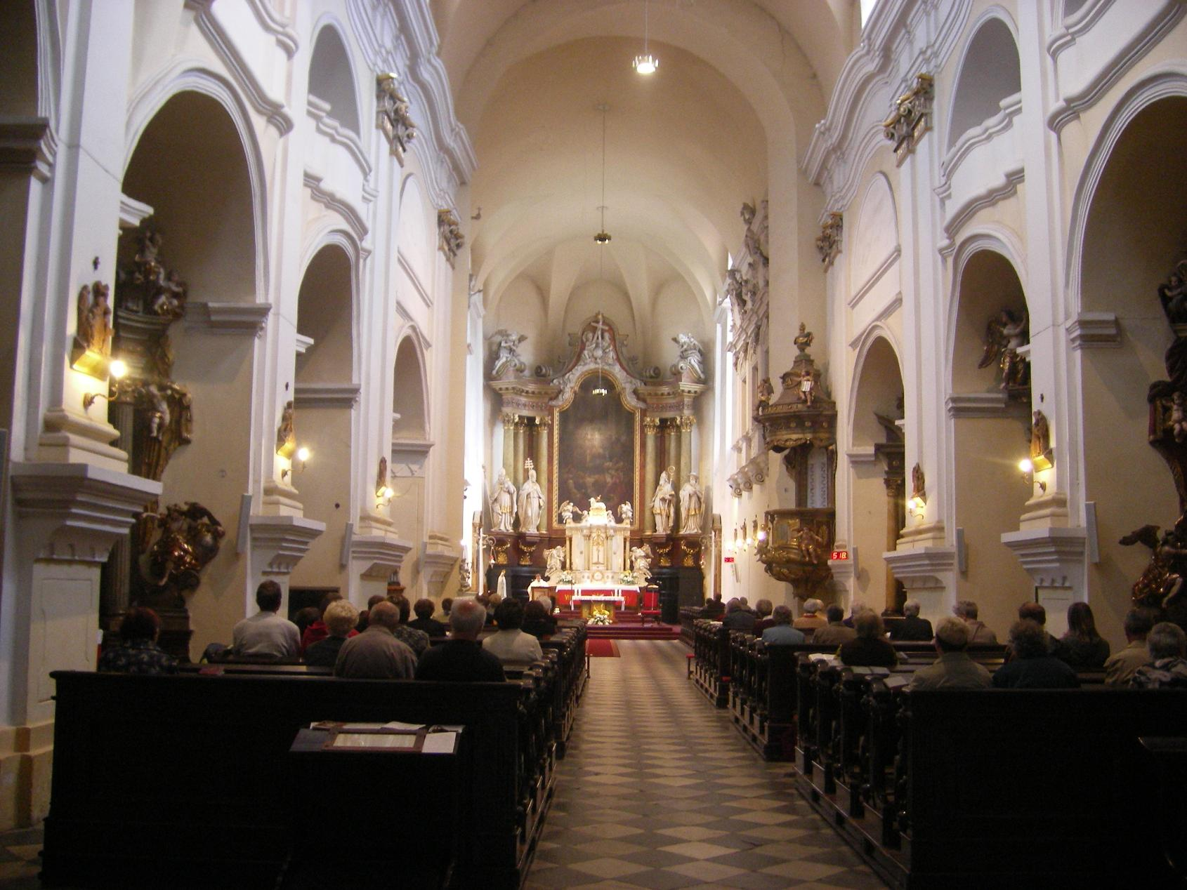 University church in Opava